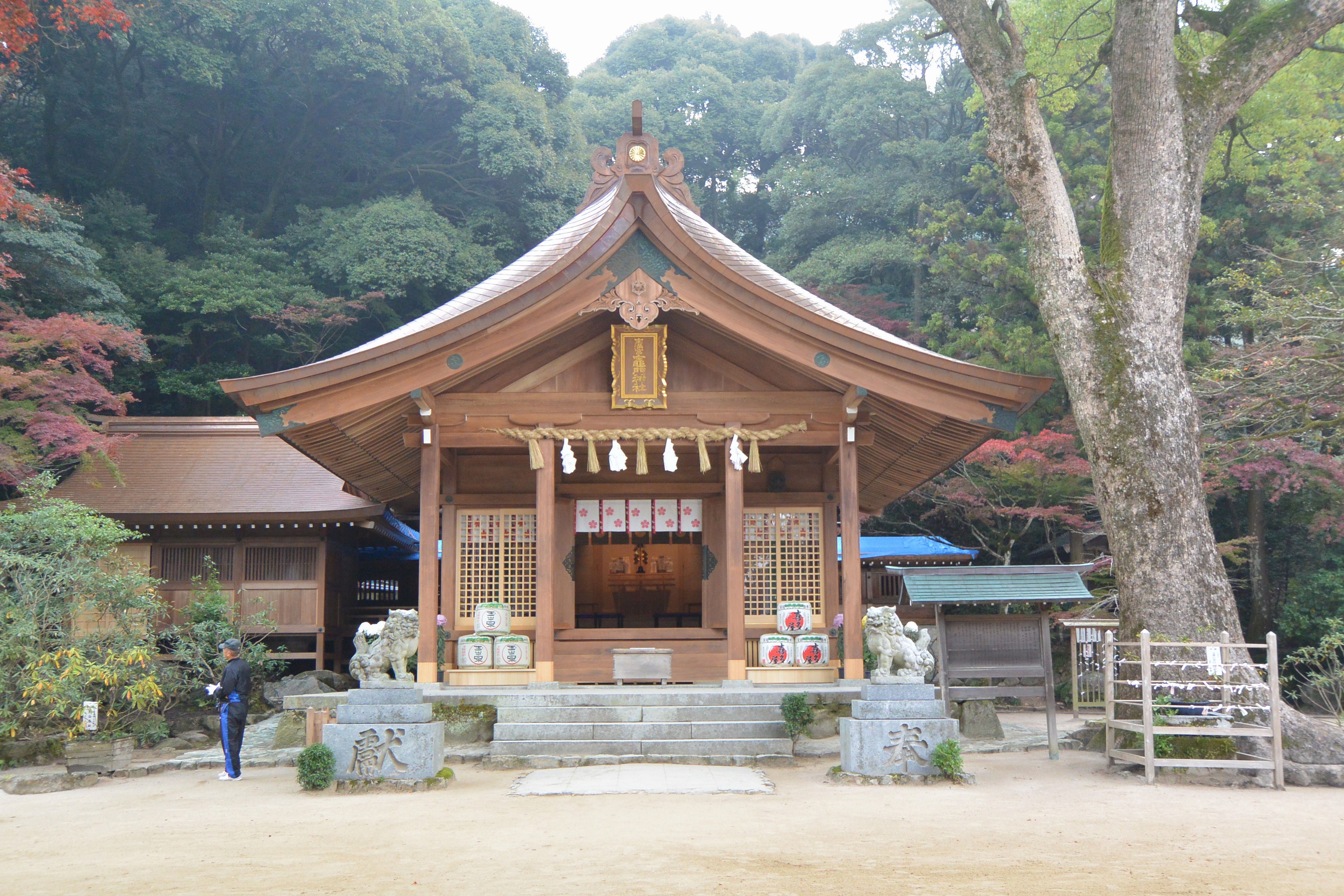 Kamado Jinja is shinto shrine near Dazaifu shrine